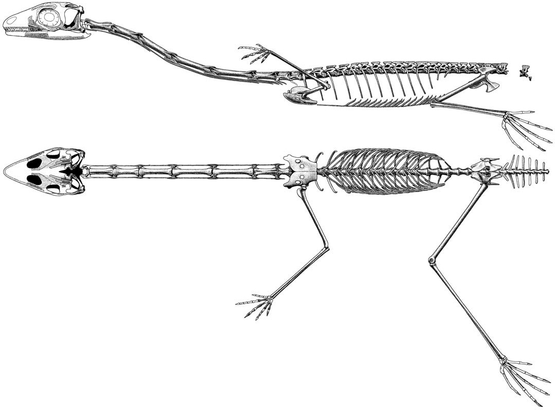 Restoration of the skeleton of long-necked reptile Ozimek volans gen. et sp. nov. in a gliding pose; left lateral (A) and ventral (B) views.